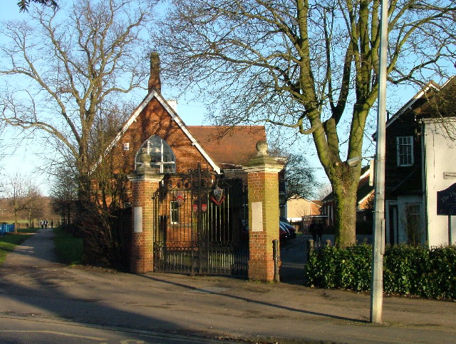 Thomas Alleynes School, Stevenage. Recognised, I believe, as one of the better schools in town.